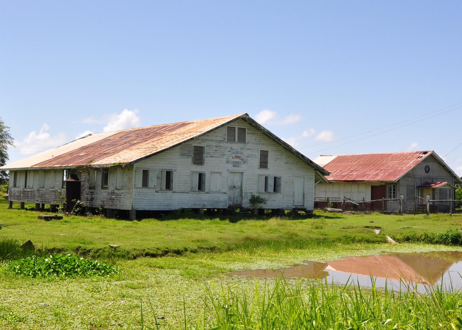 Hampton Court - St Lawerence Anglican School 1909